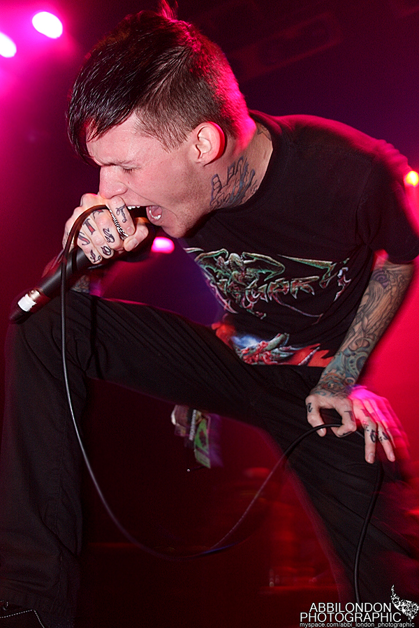 Carnifex - Live In London, UK